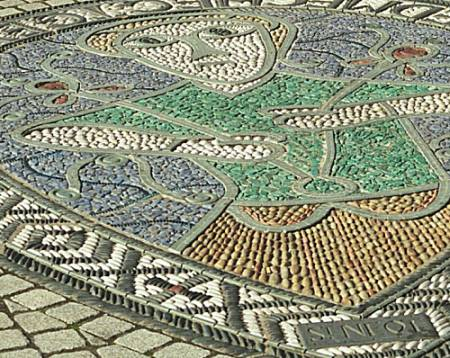 This mosaic commemorates Saint Neot, I took the photograph in 2000 in St Neots Market Square, Cambridgeshire, England - Chris Jefferies 10:30, 20 Jun 2004 (UTC)